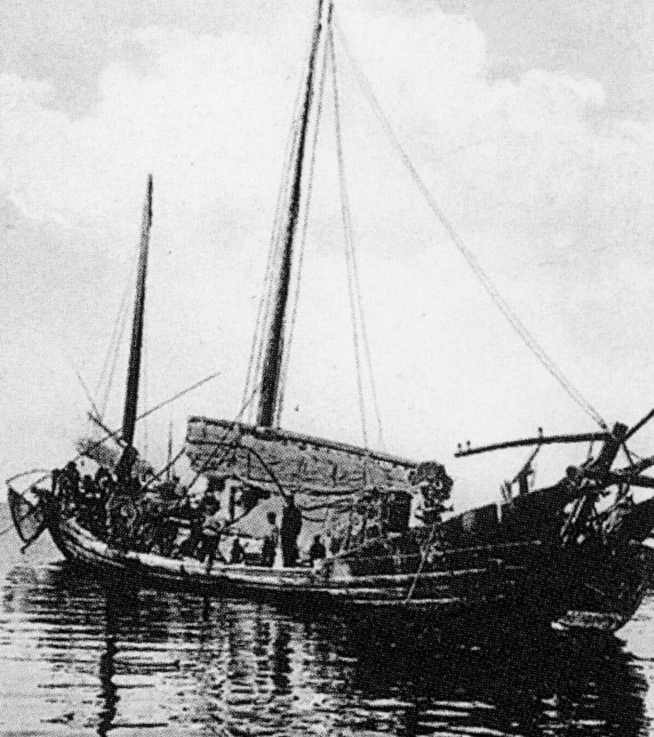 A large Chinese junk in Vladivostok harbour, 1900s